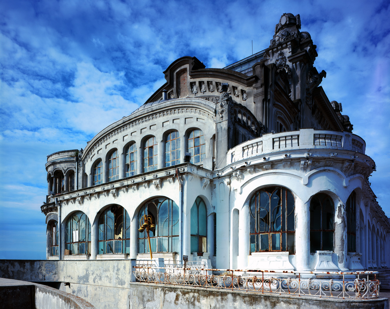 The Casino of Constanta awaiting renovation